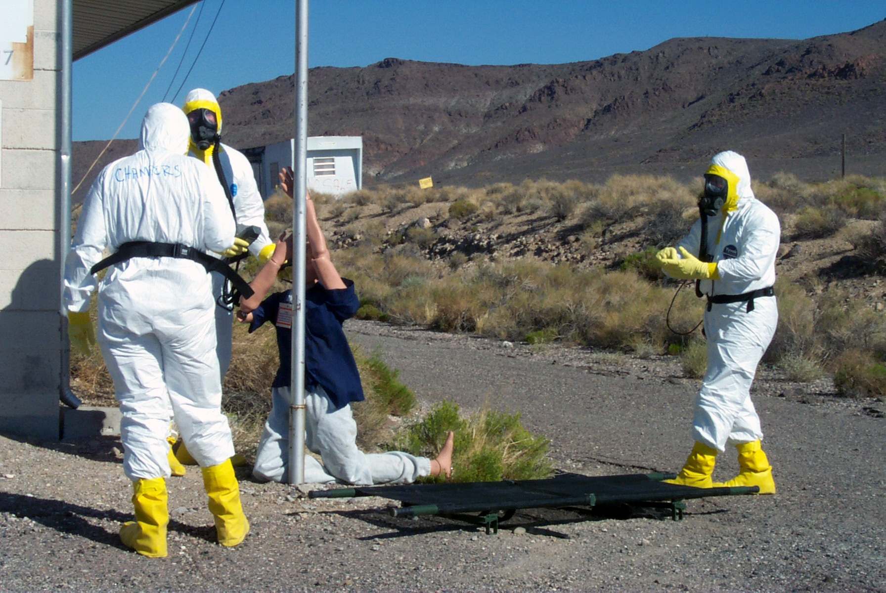 WMD/Counter terrorism training exercise at the Nevada Test Site Area 1.